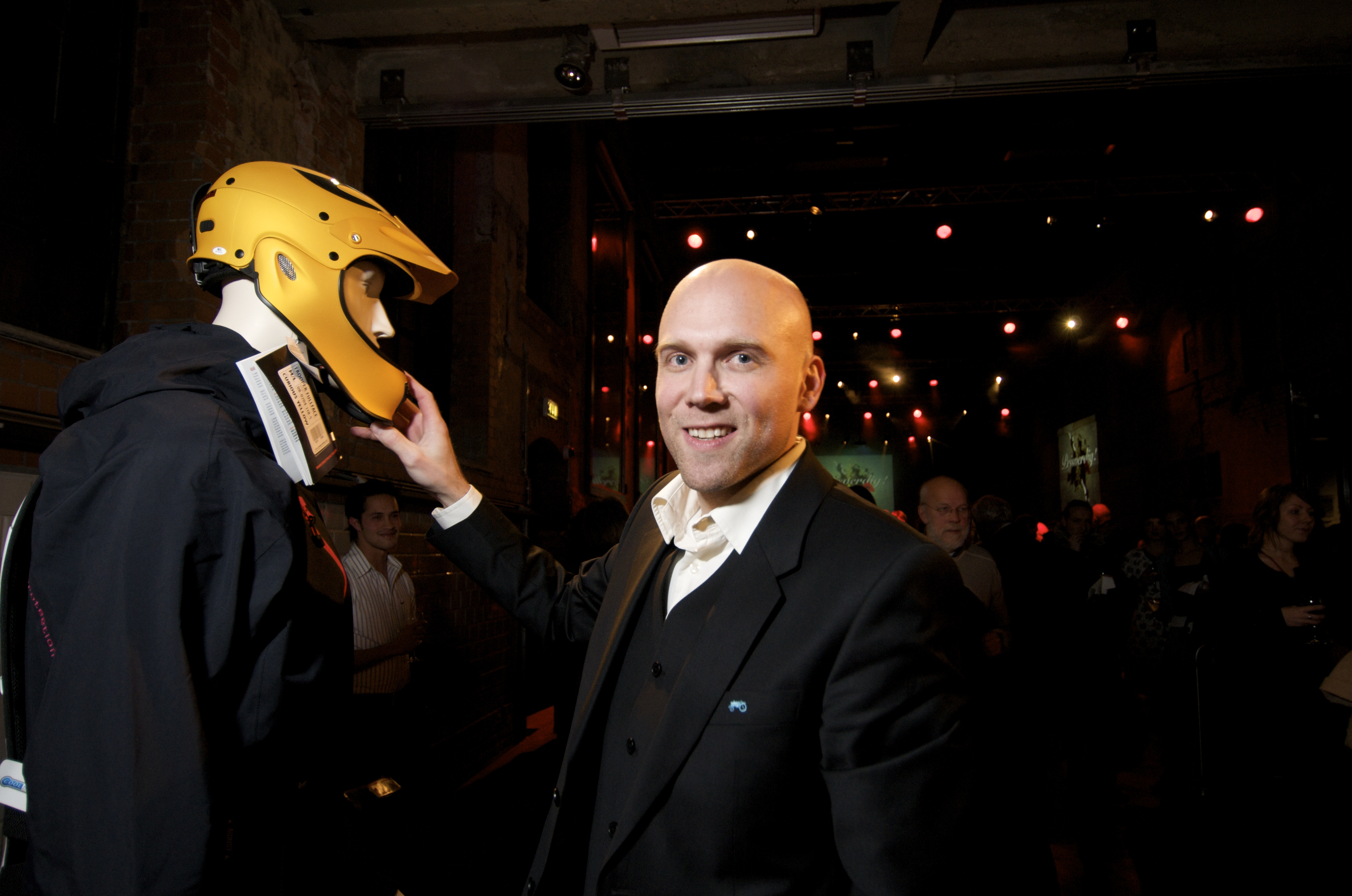 Norwegian designer Ståle N. Møller receiving the award Jacobprisen 2008